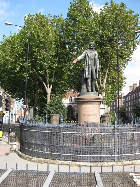 Statue of Gladstone Sculpted by Albert Bruce-Joy in 1887 and donated by the directors of Bryant and May’s match factory. The tradition of daubing the statue with red paint (for blood) comes from a misapprehension that it was paid for in part by a forced levy from the match worker’s wages.